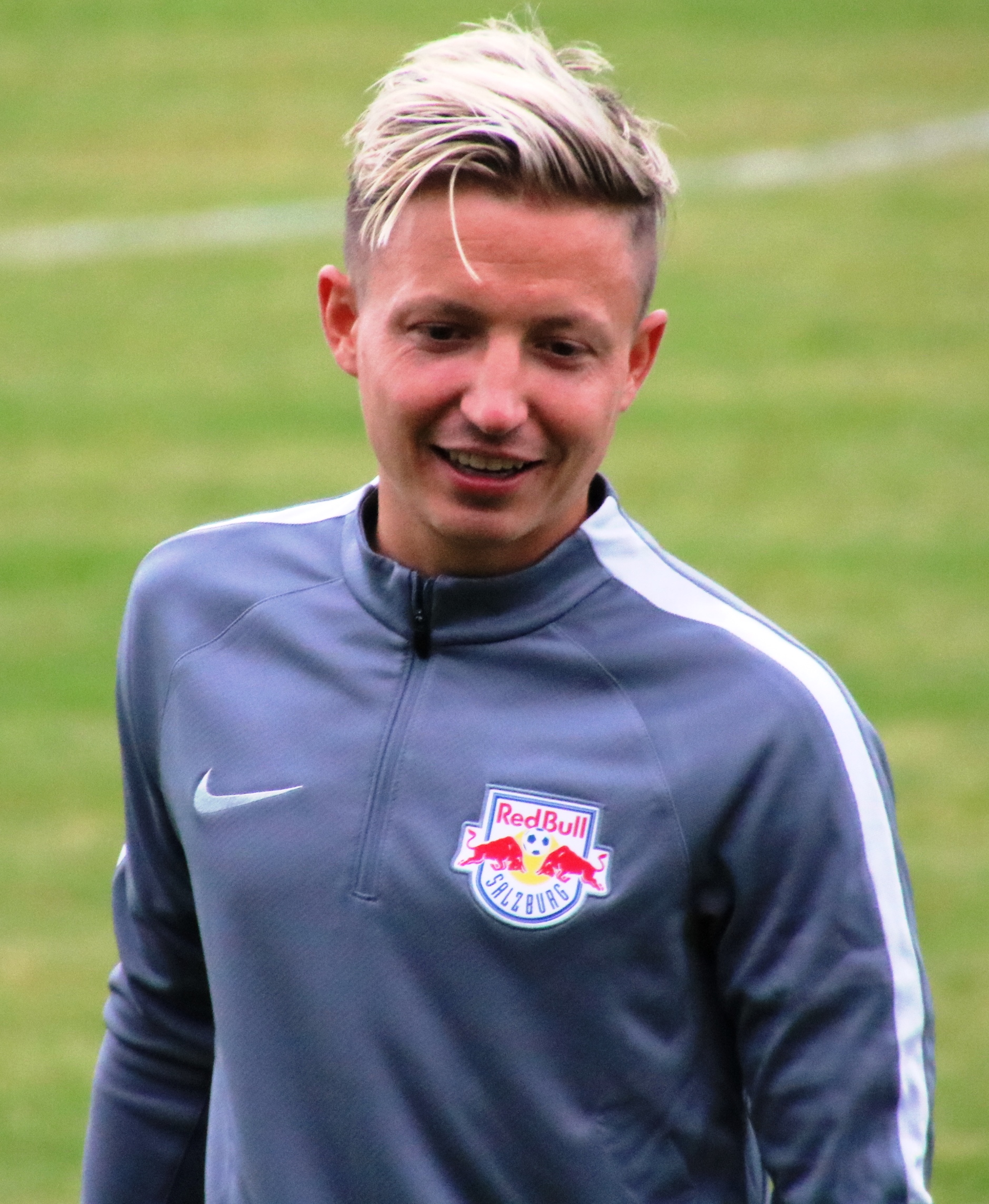 friendly match preseason